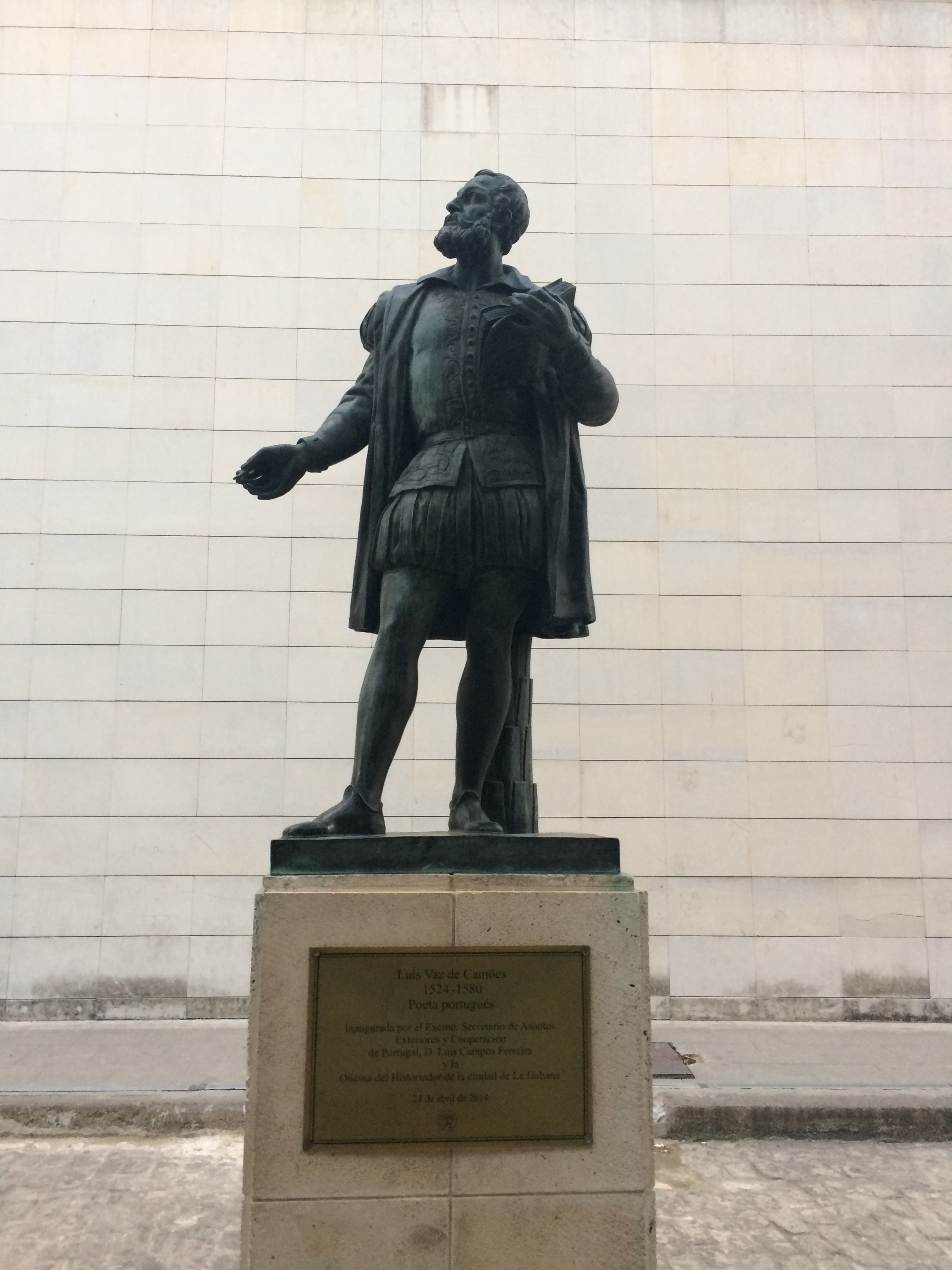 A statue commemorating de Camões in Havana, Cuba